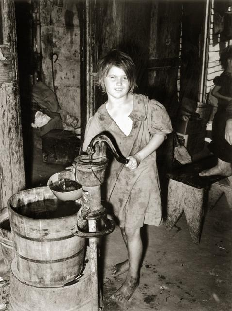 A child drawing water from a hand pump in an agricultural workers' shacktown. Taken in Oklahoma City, Oklahoma, United States.